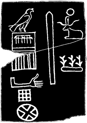 Ivory label with serekh of king Hor-Djer (1st dynasty) and a bull, formerly believed to be an image of Sirius (Spdt) and evidence of early use of the schematic civil calendar.